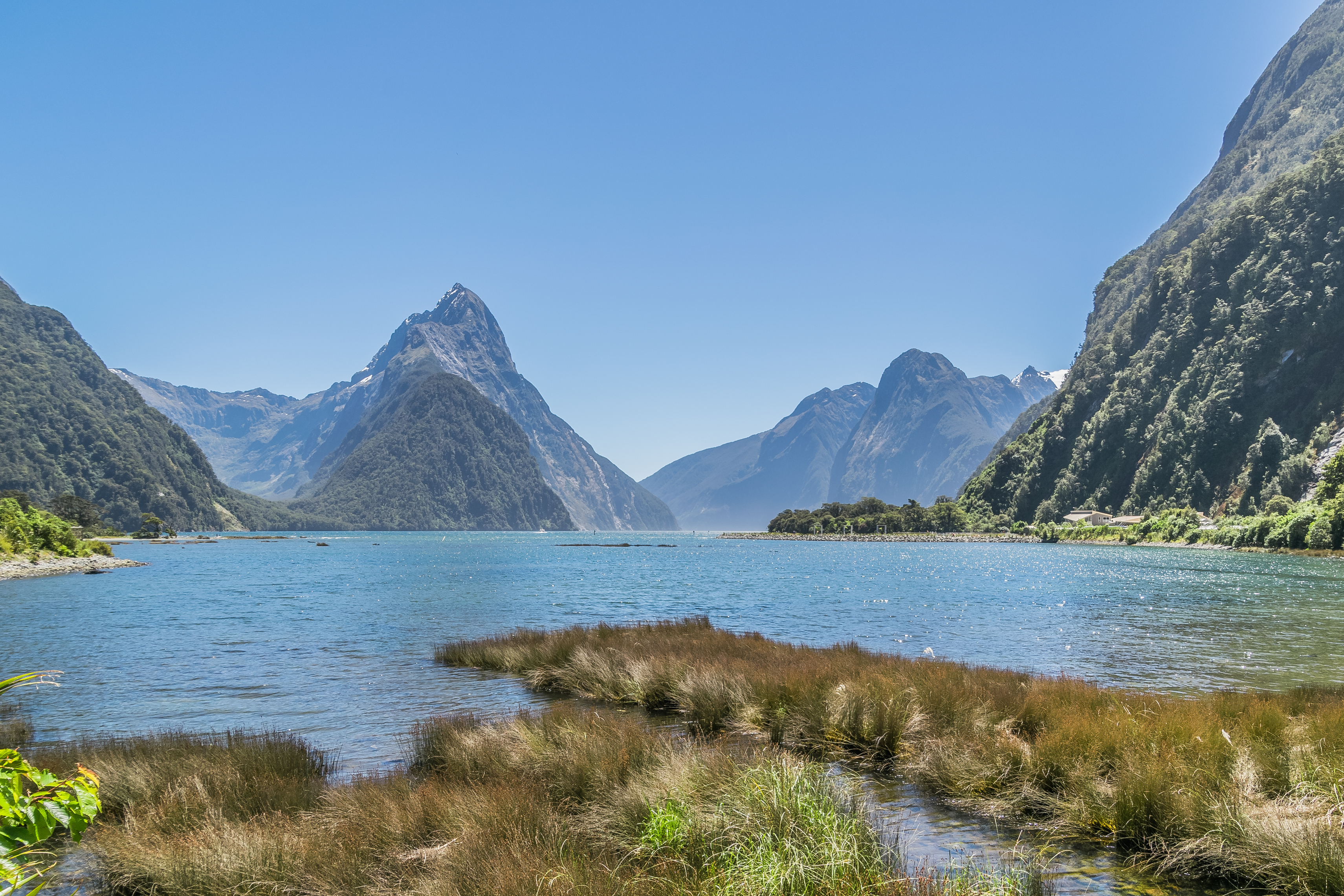 Milford Sound in Fiordland National Park, South Island of New Zealand